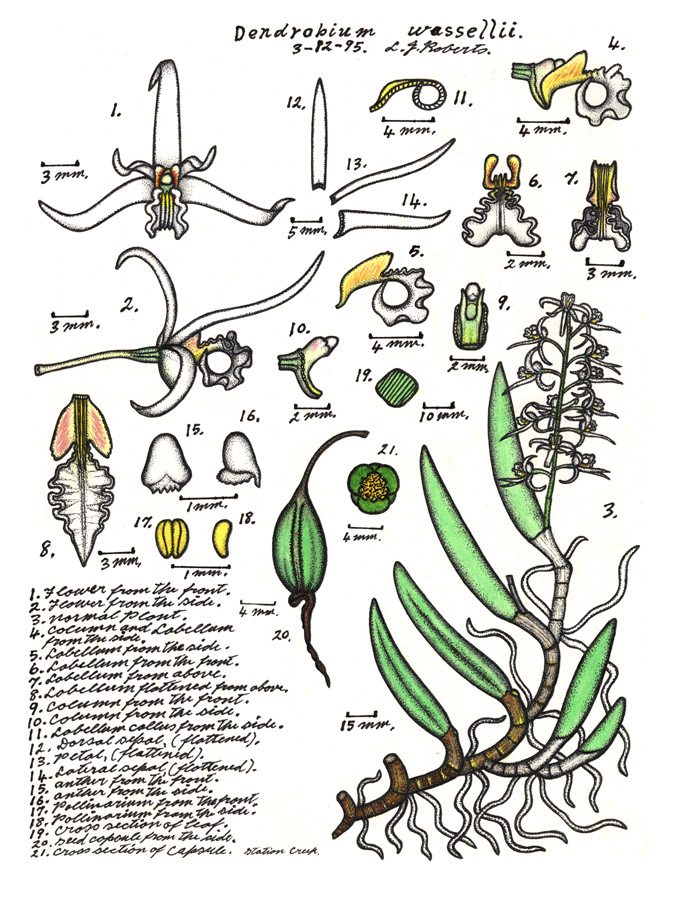 from a scan of the original work by Lewis Roberts